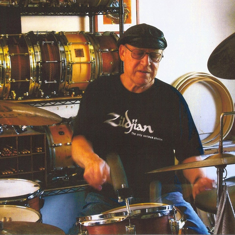 Buddy Deppenschmidt in the studio